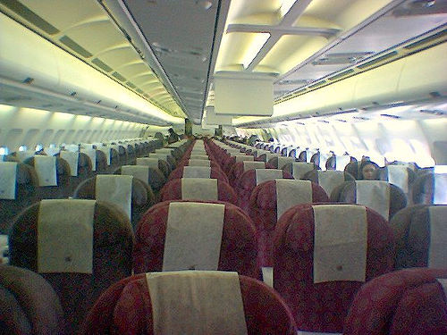 Interior of Qatar Airways aircraft